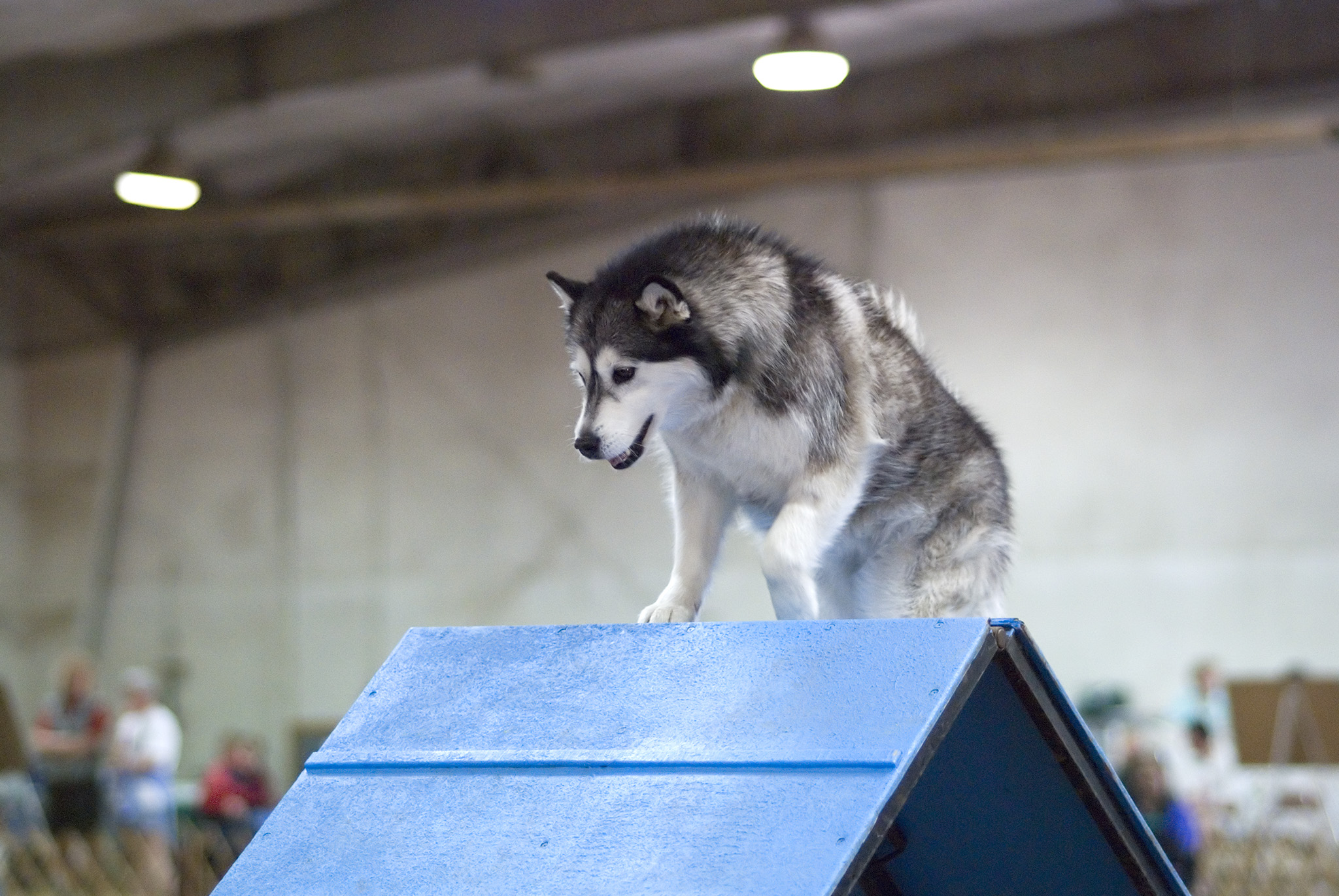 An Alaskan Malamute going over an A-frame during an agility competition.